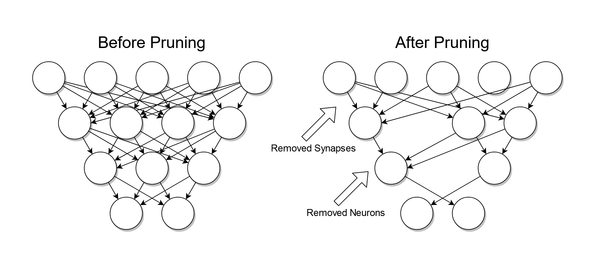 Visual representation of Pruning to see the difference before and after Pruning.